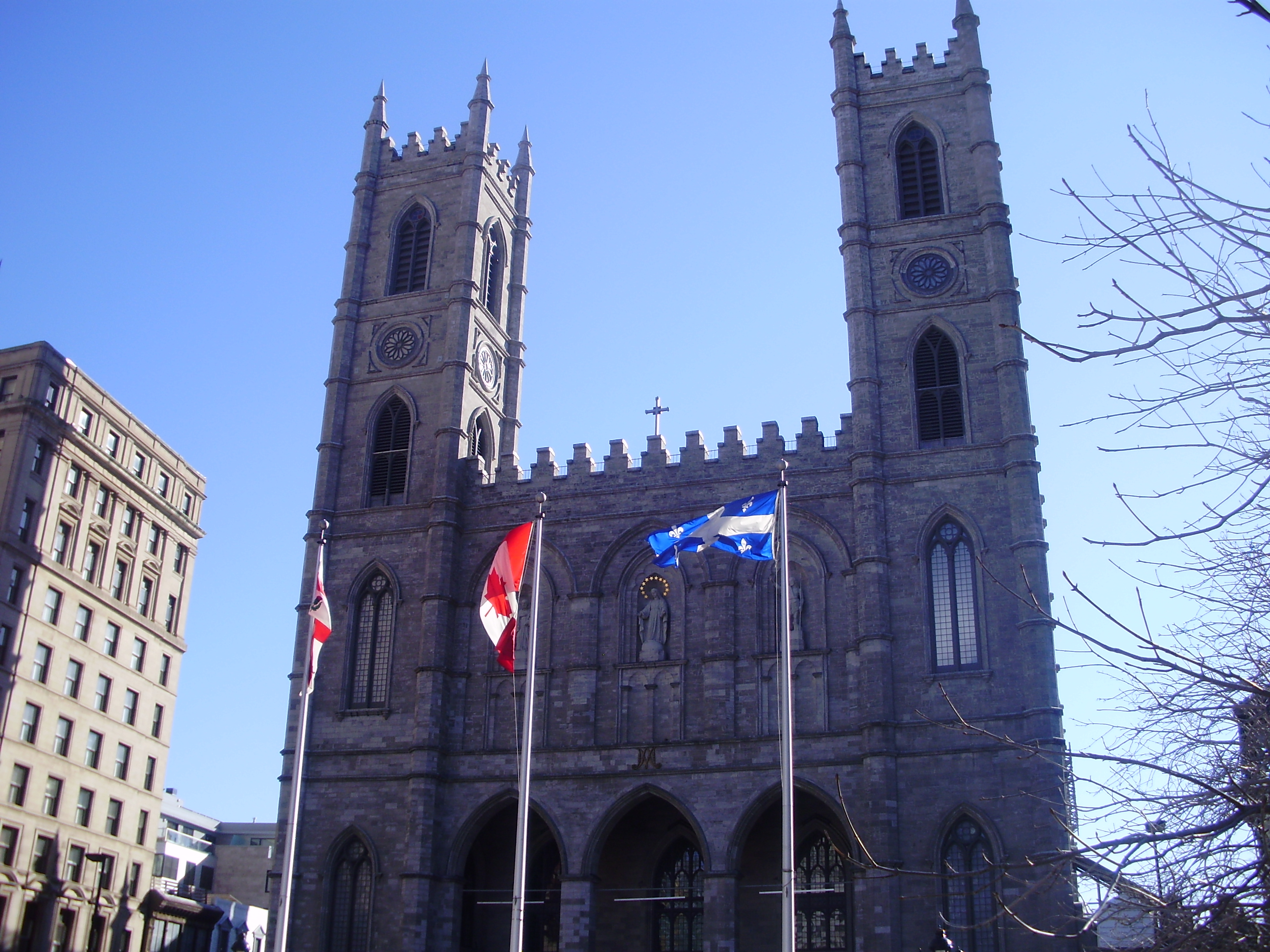 Notre-Dame Basilica of Montreal